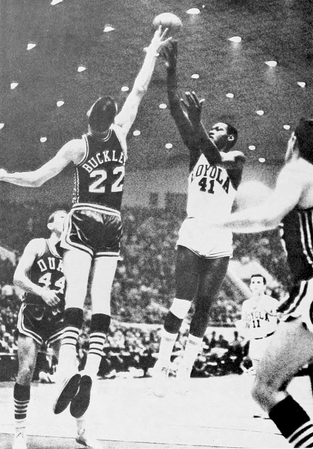 A page from the 1963 edition of Chanticleer, the yearbook of Duke University